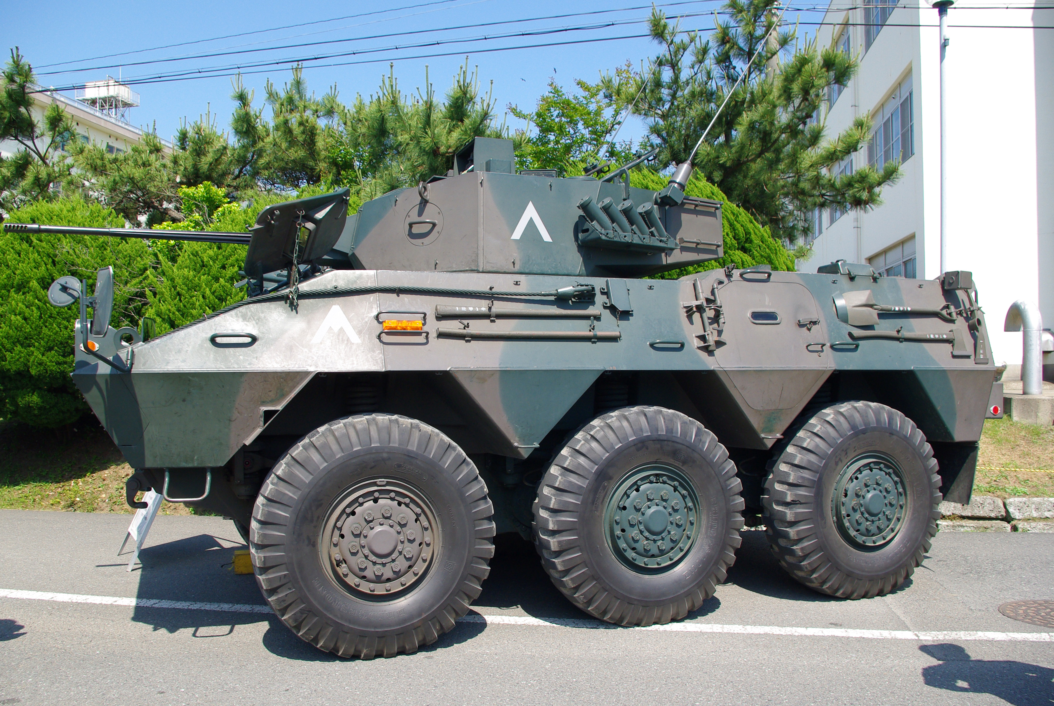 JGSDF Type87 Reconnaissance vehicle,1st Armored Training Unit/Eastern Army Combined Brigade.Taken by Los688,in Camp Takeyama,Japan,at 27-May-2012. PD-self